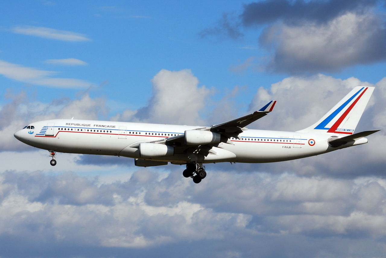 French Air Force Airbus A340-200 on finals at Toulouse Blagnac International Airport